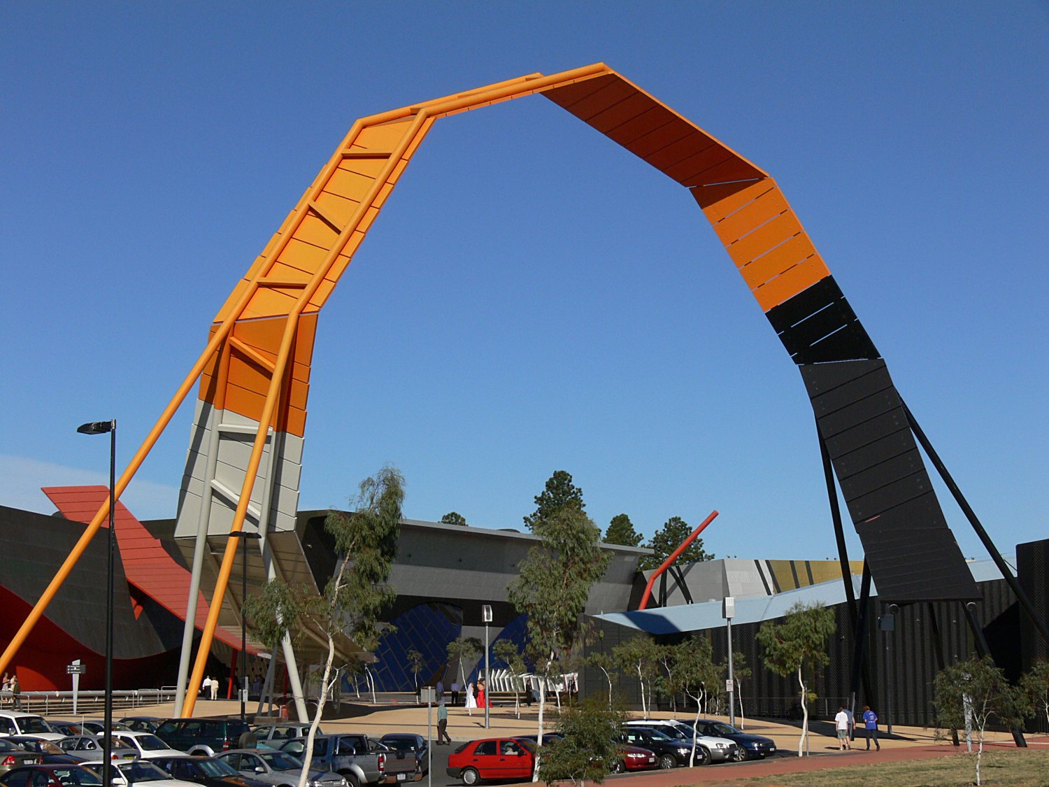 The main entrance to the National museum, showing architectural features